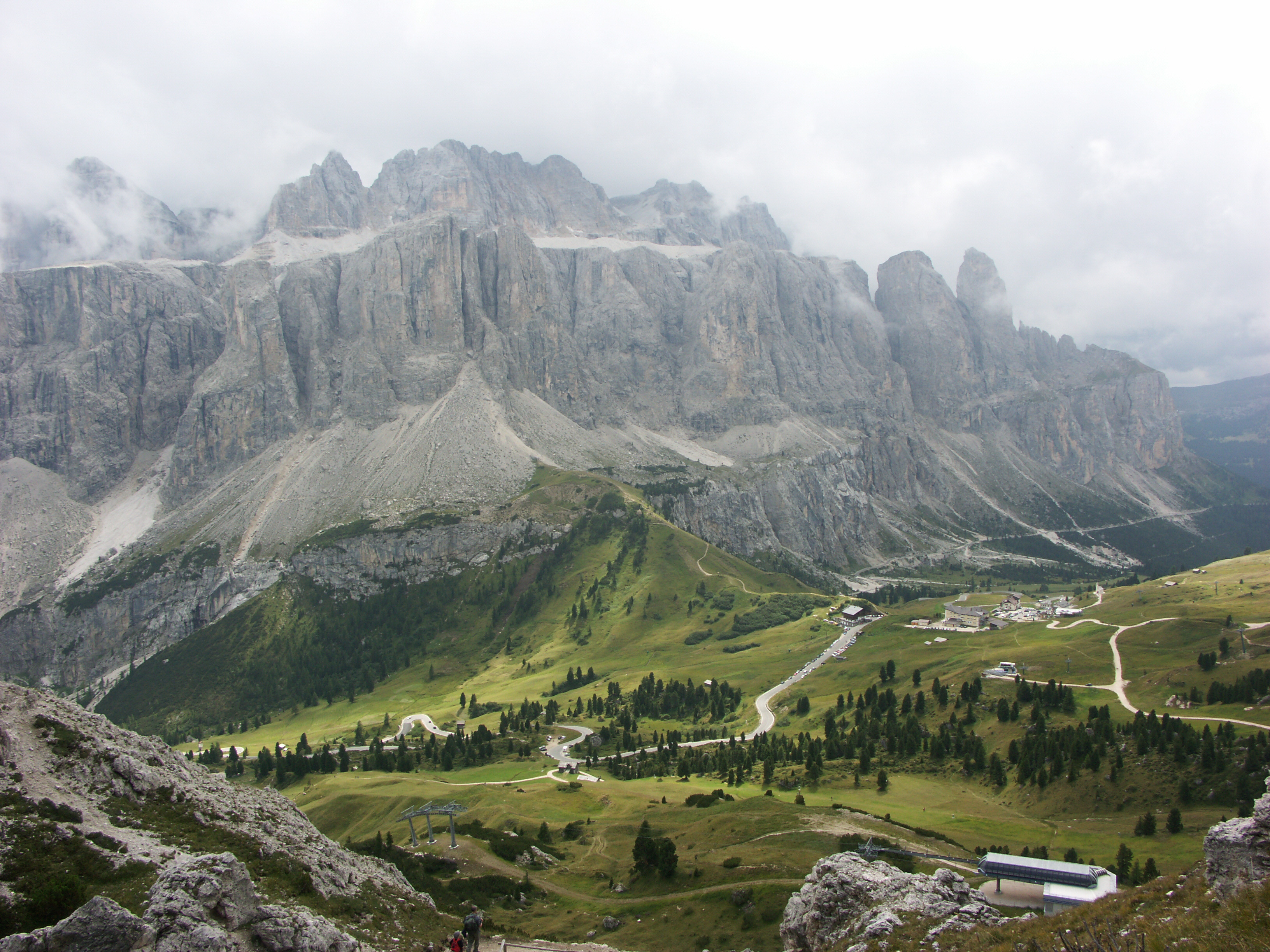 Sella group and Gardena pass